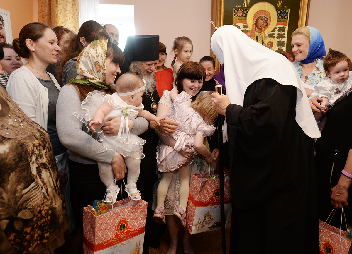 Russian Orthodox bishop visits the House for mother